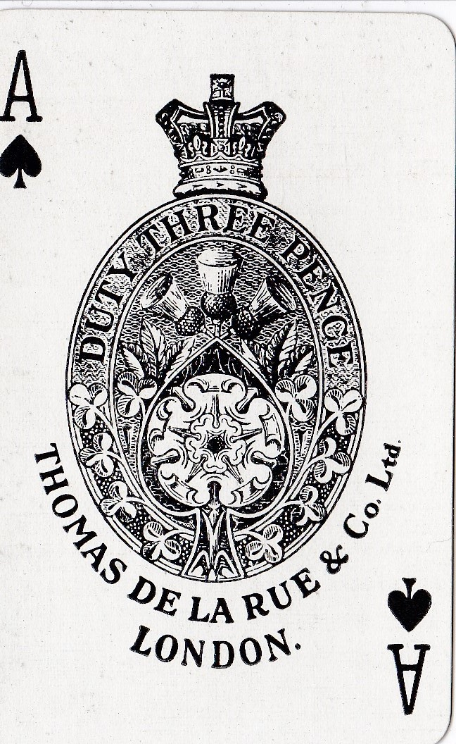 Ace of spades reflecting a royal "Duty Stamp" to collect excise duties for playing cards during the 1800's in England.